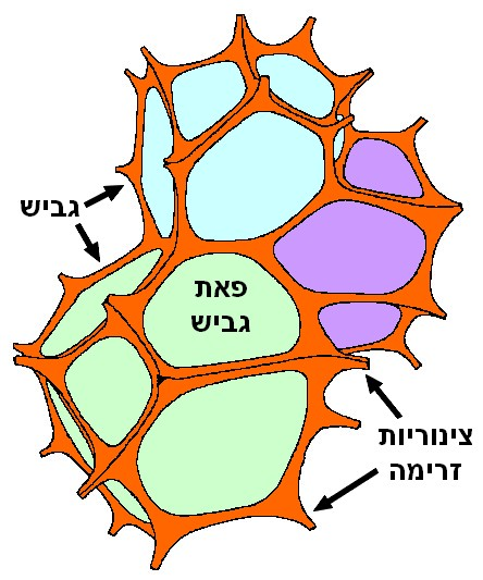 Porous flow of magma